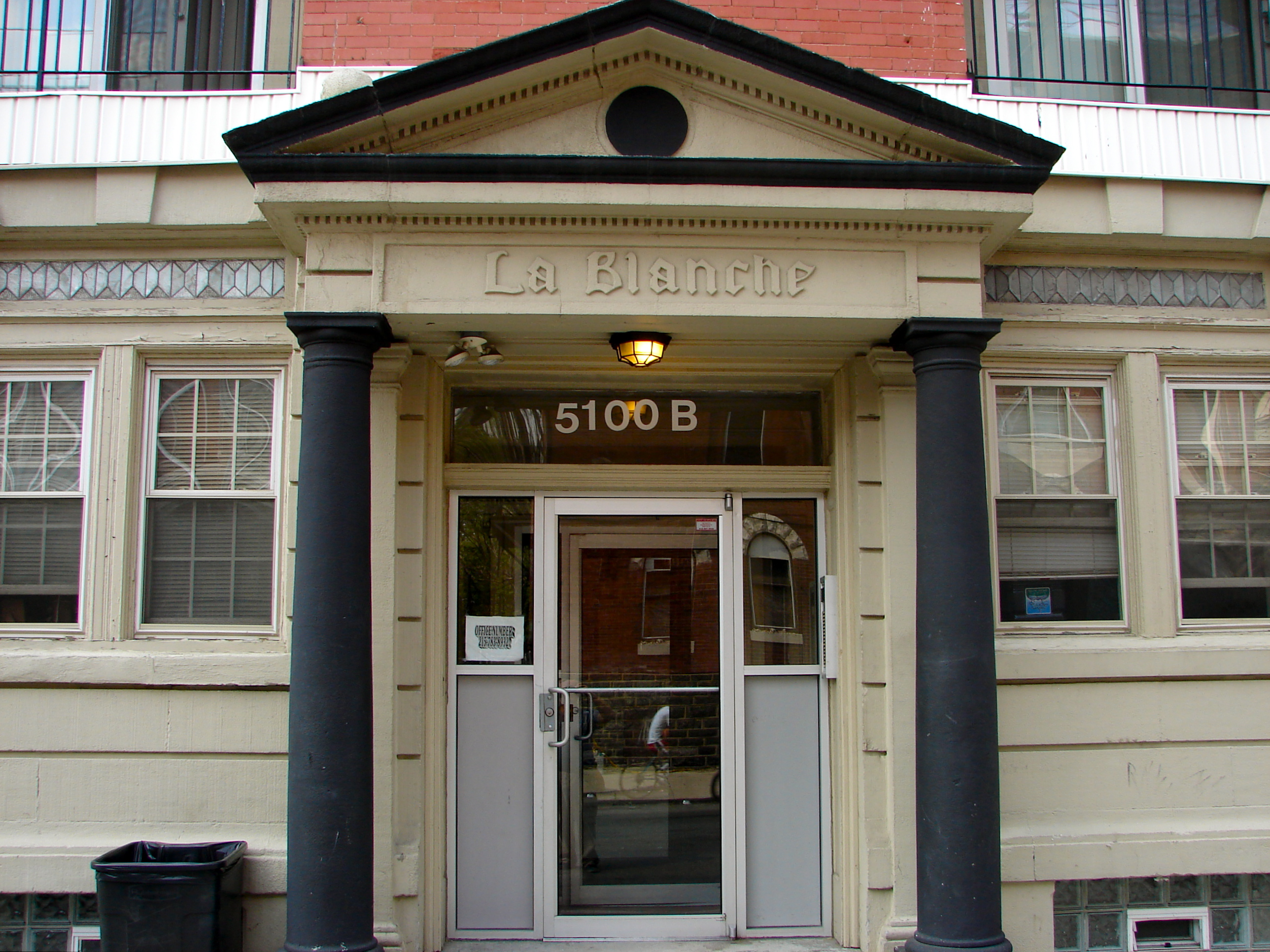 Entrance to La blanche Apartments on 51st Street in Philadelphia. On the NRHP in West Philly.